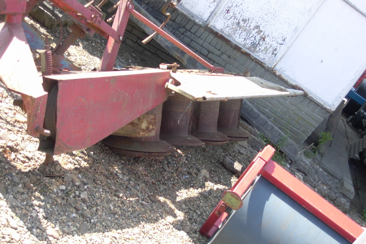 mower, brand is PZ Piet Zweegers from Holland